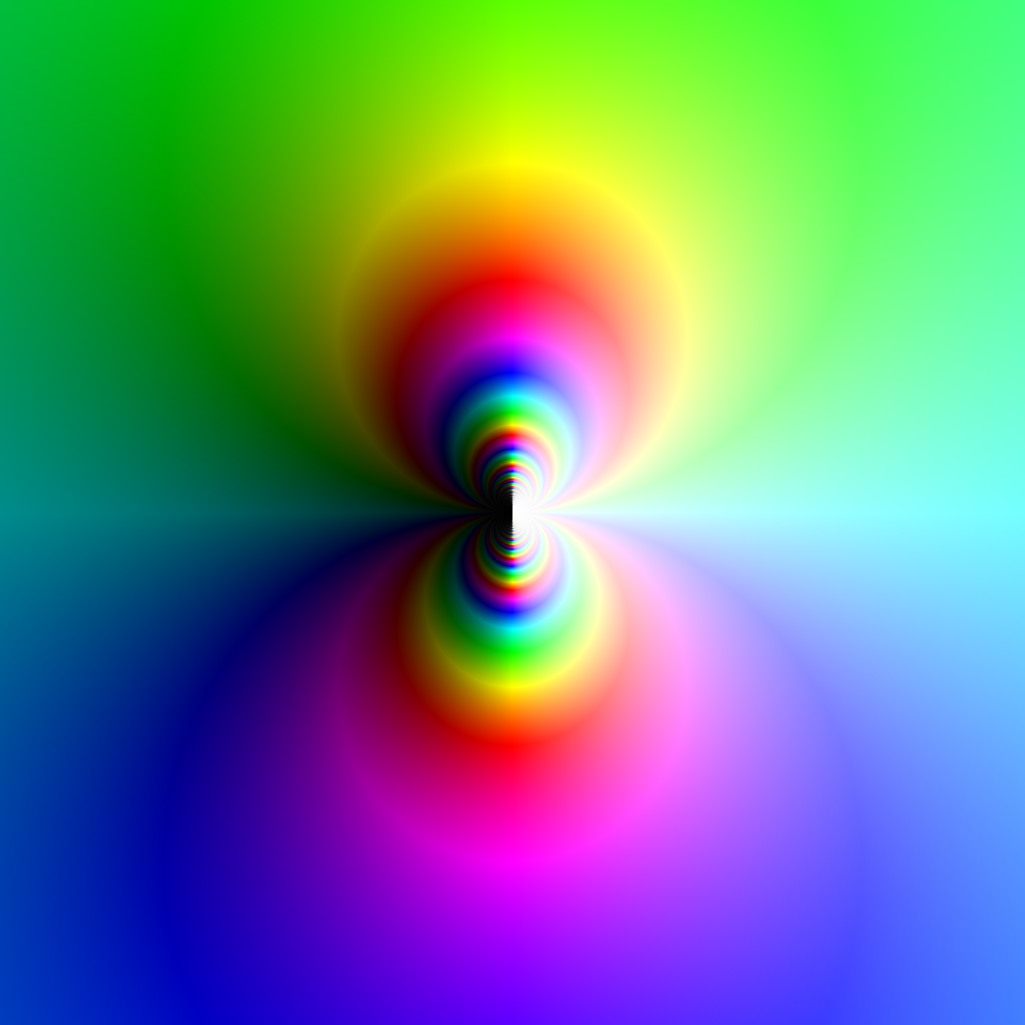 Hue-luminance plot of exp(1/z), centered on the essential singularity at zero.